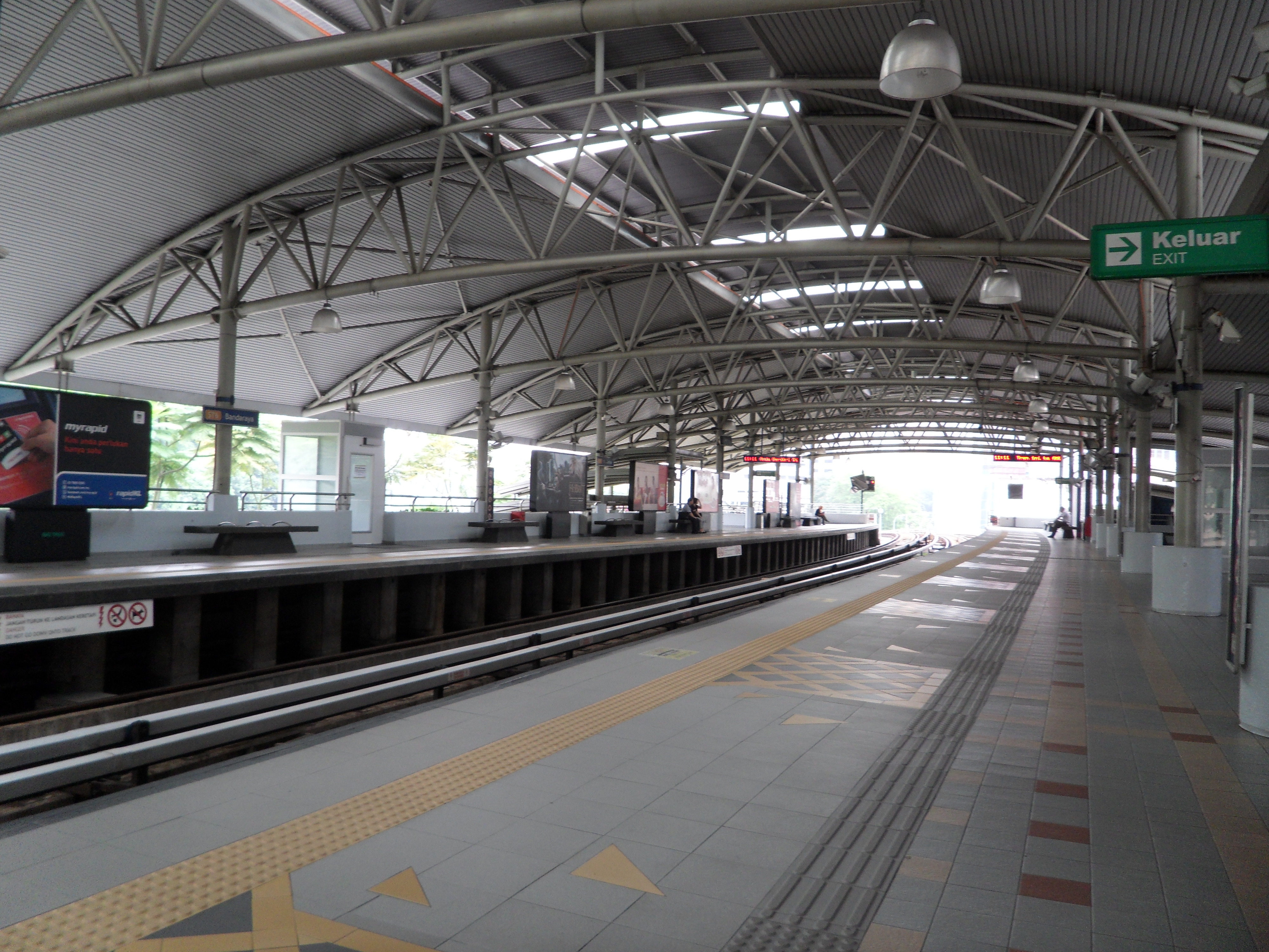 View on the Ampang/Sri Petaling platform of the Bandaraya LRT station, Kuala Lumpur, Malaysia. Taken 20 Nov 2013.